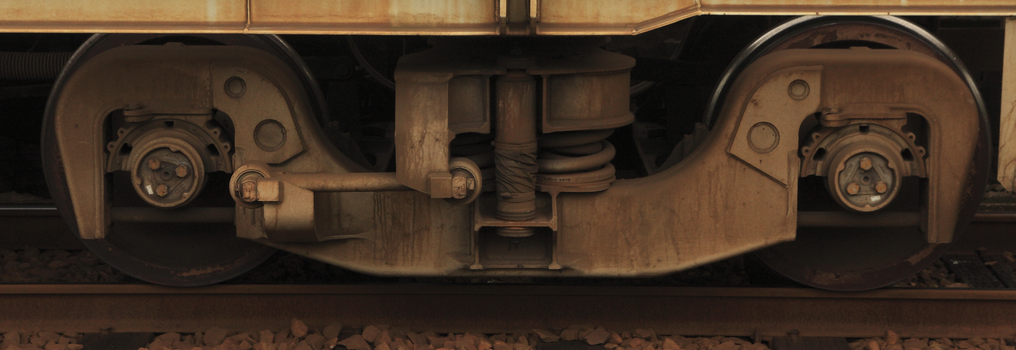 Bogie truck of JR Freight Taki 1100-6 tanker, taken at Iwami-Tsuda Station